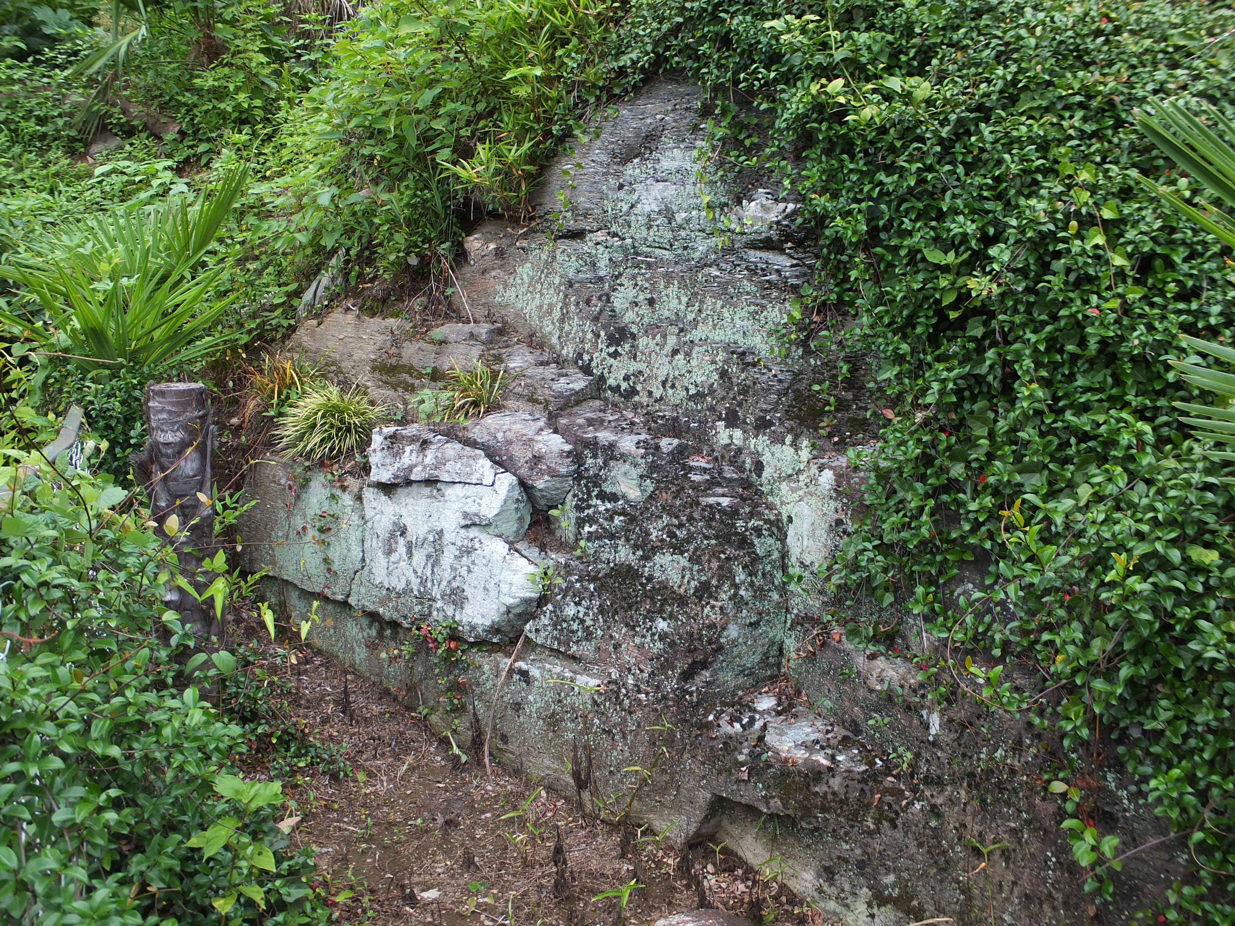 Stele of Great Kanto Flood 1742 in Nagatoro, Saitama prefecture